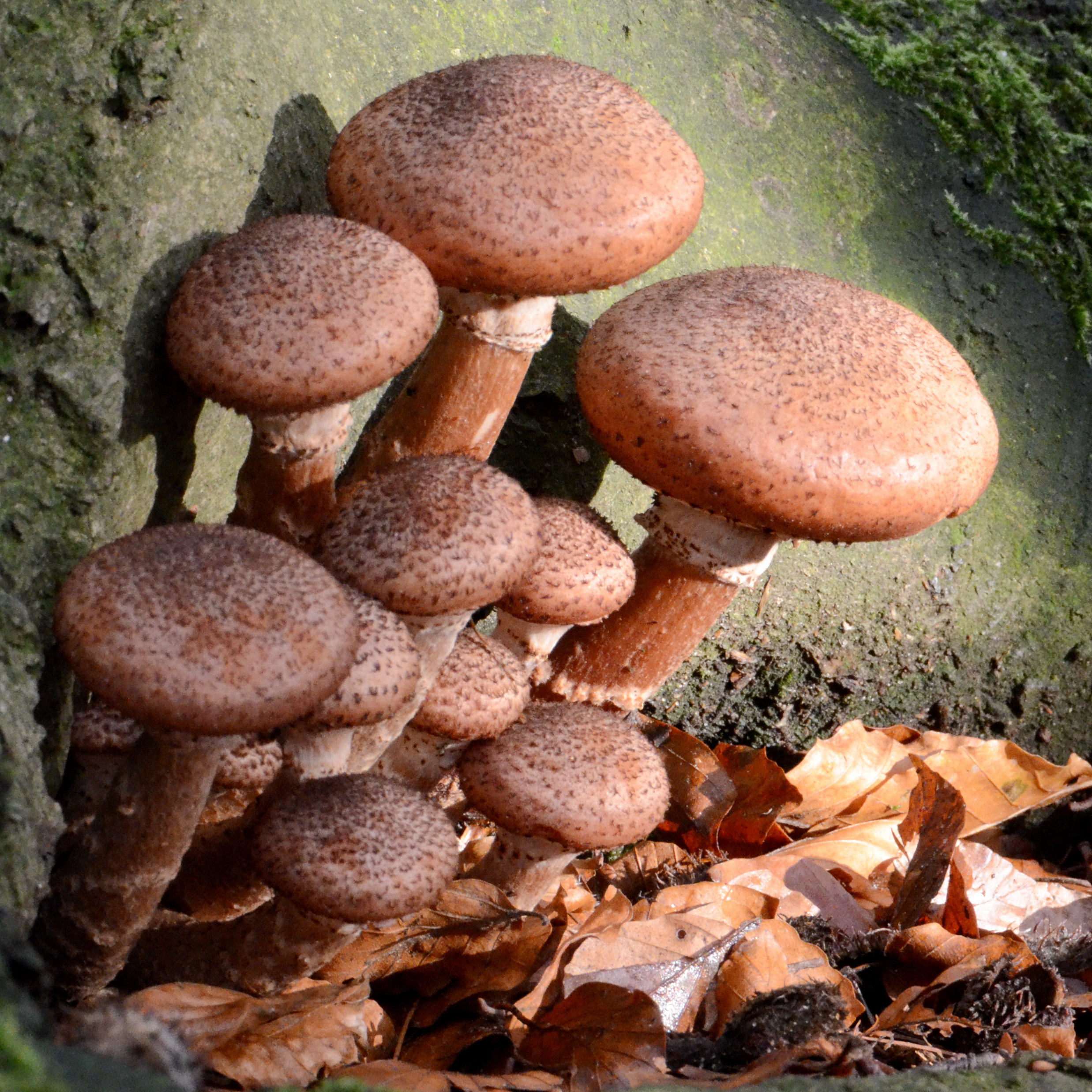 Armillaria ostoyae (sombere honingzwam) at the foot of a beechtree